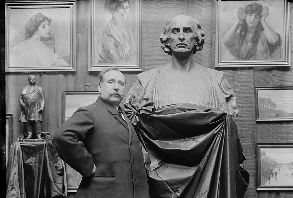 Italian sculptor Ettore Ximenes (1855–1926) with his statue of Christopher Columbus in his studio